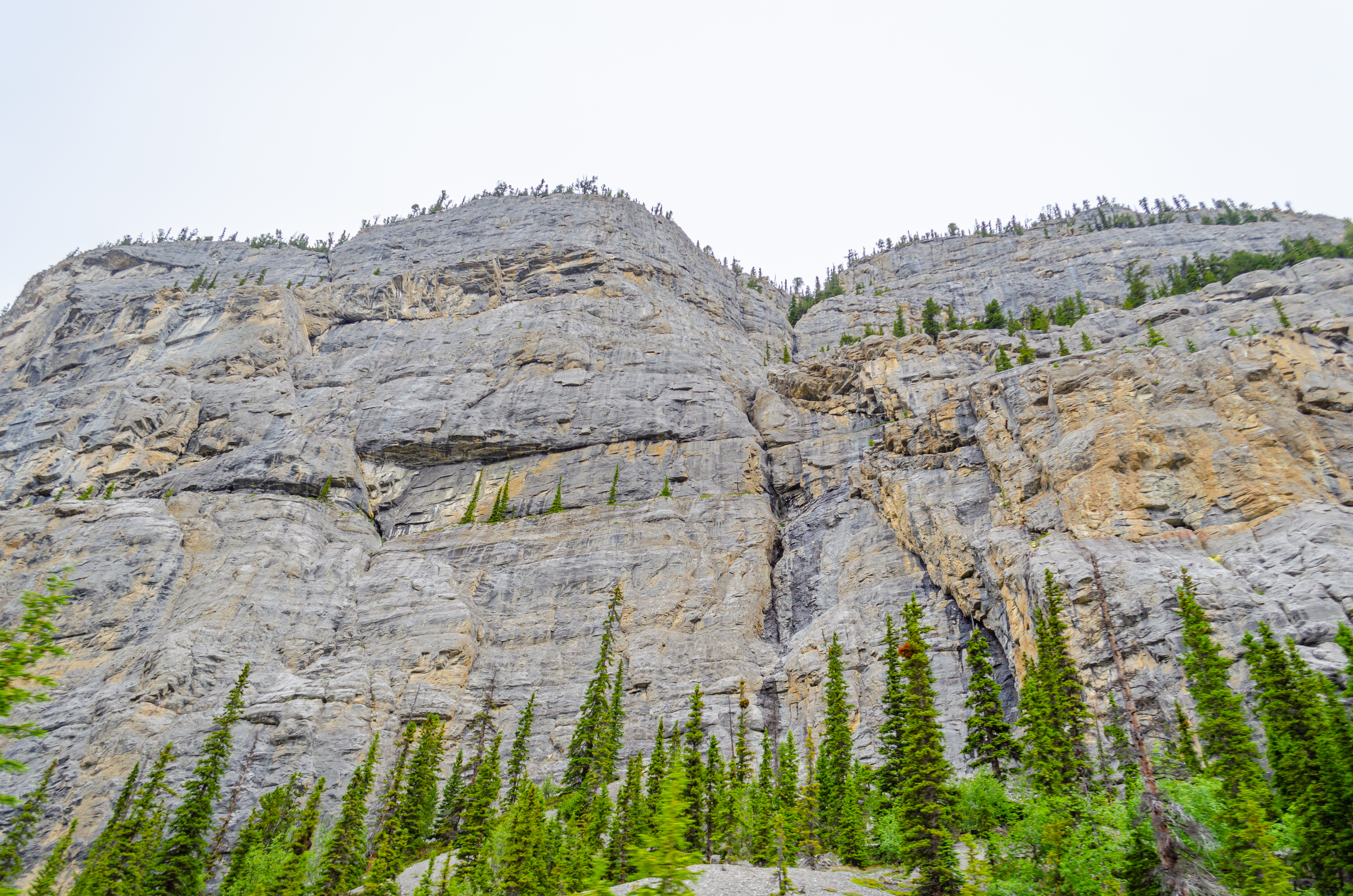 The Weeping Wall, Banff National Park, is located along the Icefields Parkway highway.